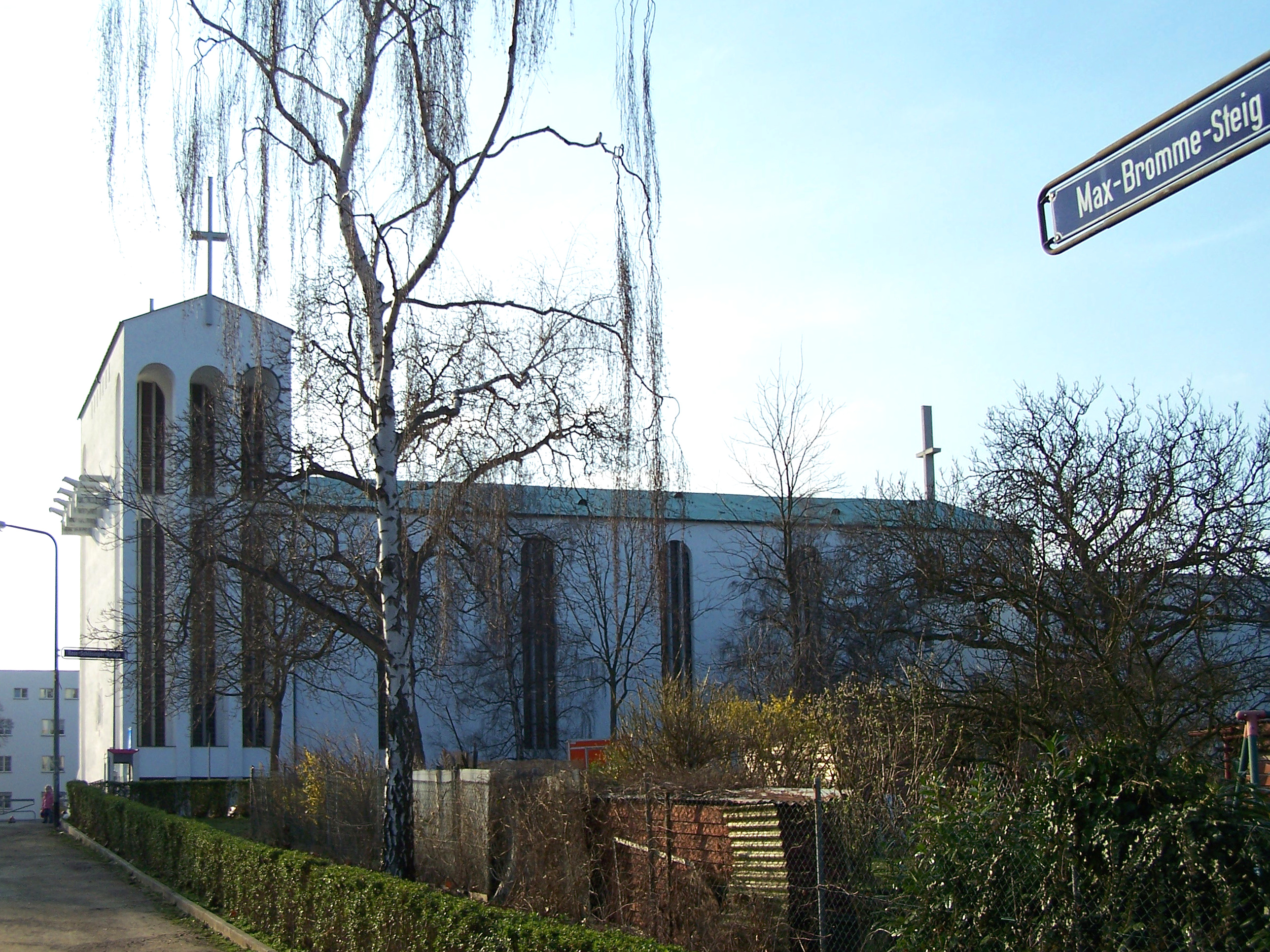 "Hangkrone" ("crown of the hillside") Holy Cross Church seen from the Bornheimer Hang in Frankfurt am Main-Bornheim, in March 2011